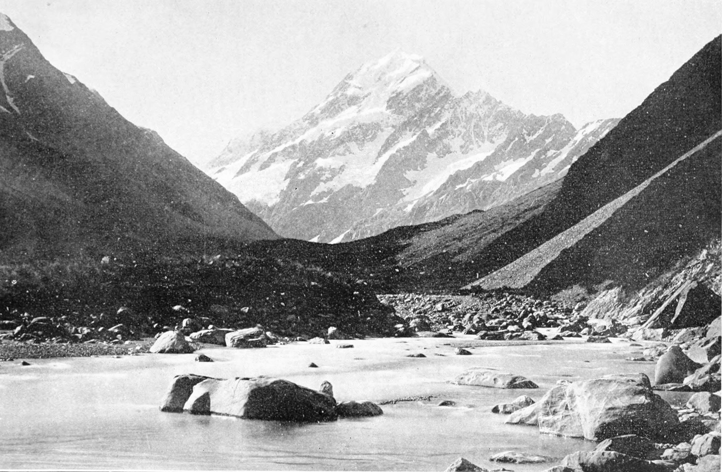 Frontispiece from Picturesque New Zealand, by David Paul Gooding. Original caption: Mount Cook form the Hooker River.